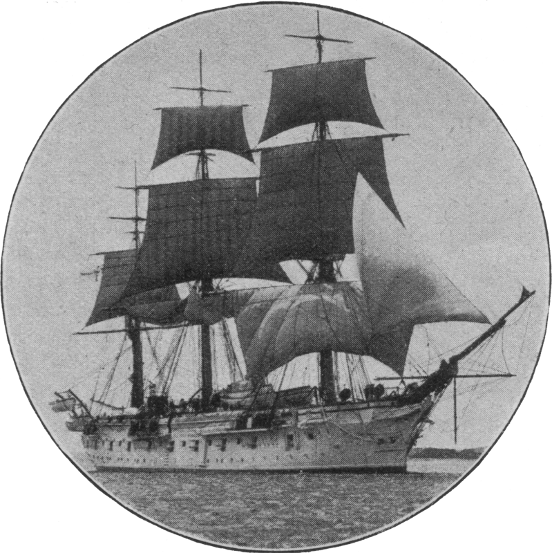 The German cruiser frigate SMS Moltke (launched in 1877).